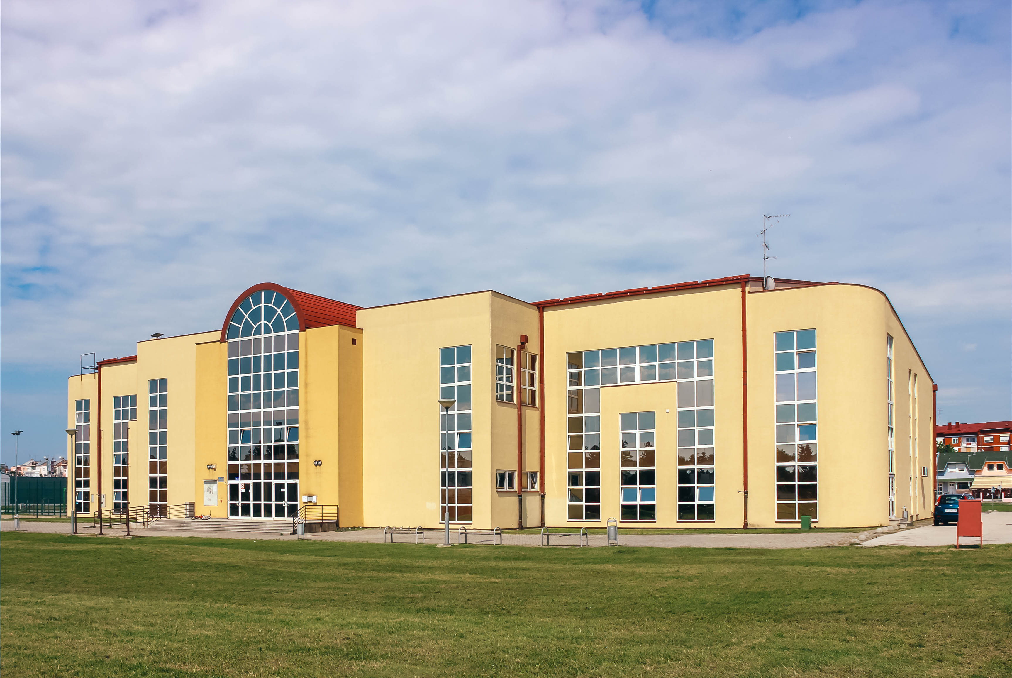 Sports hall